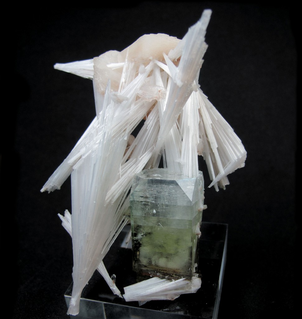 Scolecite, Apophyllite, Stilbite Locality: Ahmadnagar District (Ahmednagar District; Ahmed Nagar District), Maharashtra, India Original description: Acicular colorless scolecite crystals in a group with pale green apophyllite and very light pink stilbite. The apophyllite crystal includes other scolecite crystals with a habit somewhat spherical radiated, as seen in the photos. Overall size: 90 mm x 84 mm. Apophyllite crystal size: 36 mm high, 20 mm wide. Weight: 71 g